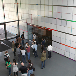 Entrance of the List Visual Arts Center at Student Loan Art Program distribution.